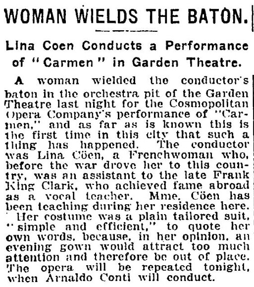 Lina Coen, conductor, The New York Times, 8 February 1917